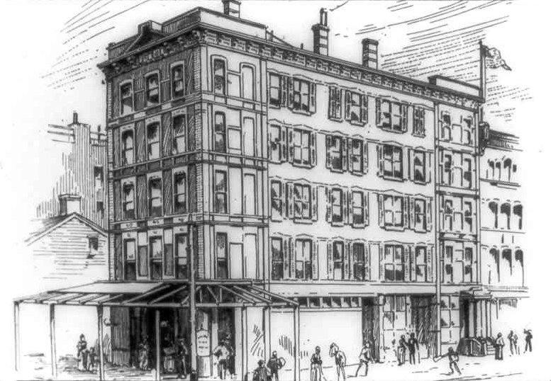 302 West 47th Street, New York, 'The Lamasery'.